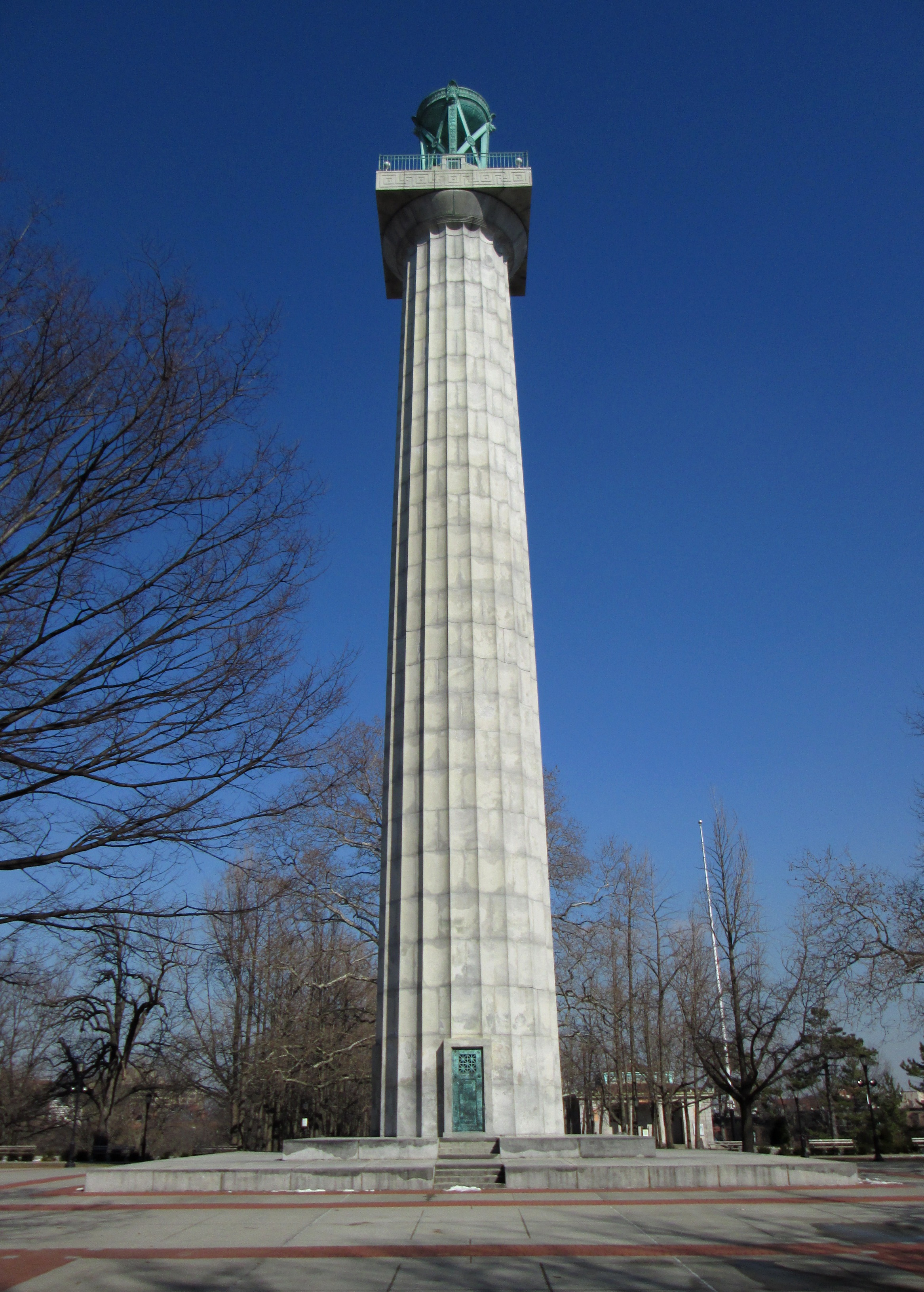 The Prison Ship Martyrs' Monument was built in 1906-09 and was designed by Stanford White of McKim, Mead and White, with sculptures by Adolph Alexander Weinman. The Doric column topped by a bronze brazier commemorates the 11,500 American prisoners who died aboard 11 British prison ships anchored in Wallabout Bay from 1776-83, during the American Revolutionary War. The brazier, sculpted by Weinman, is 148 feet above the ground and once had an eternal flame. The monument is located at the center of Fort Greene Park within the Fort Greene Historic District. (Sources: AIA Guide to NYC (5th ed.) and Guide to NYC Landmarks (4th ed.))